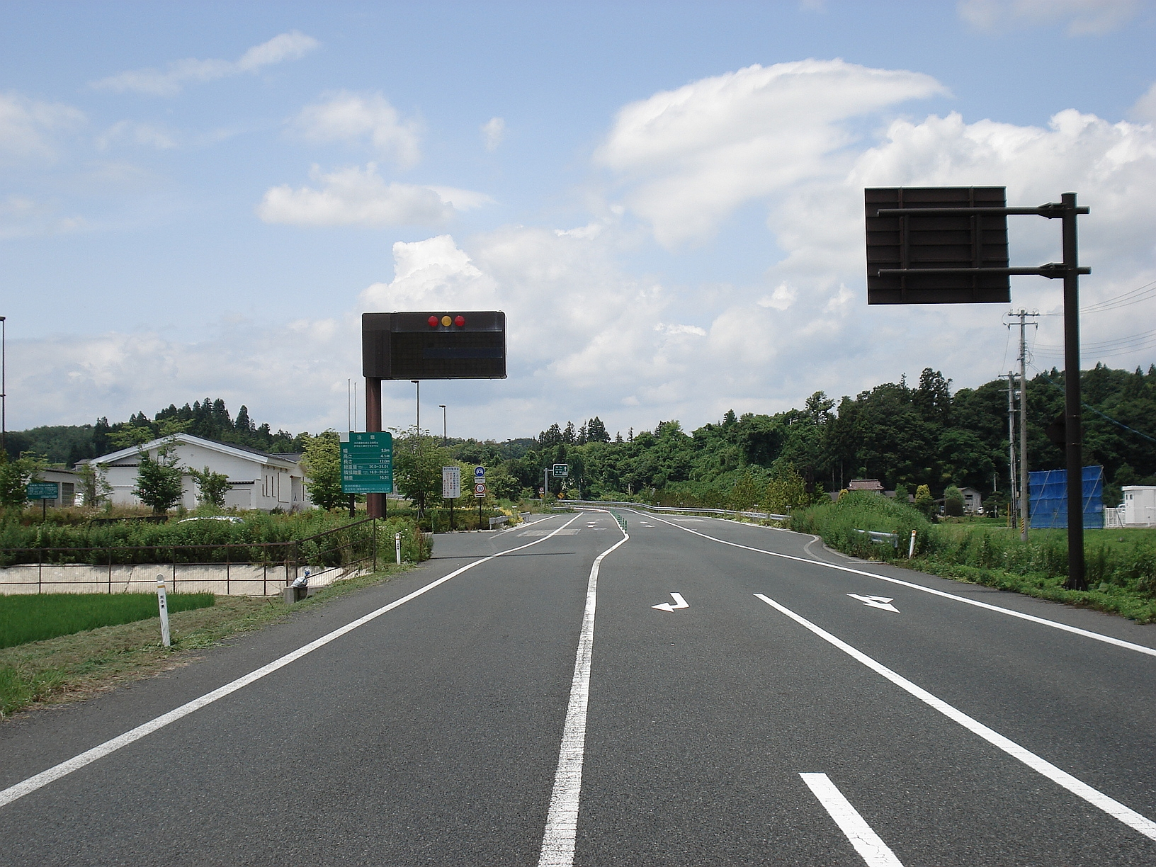 Towa Interchange on the Kamaishi Expressway, in Hanamaki City, Iwate Prefecture, Japan